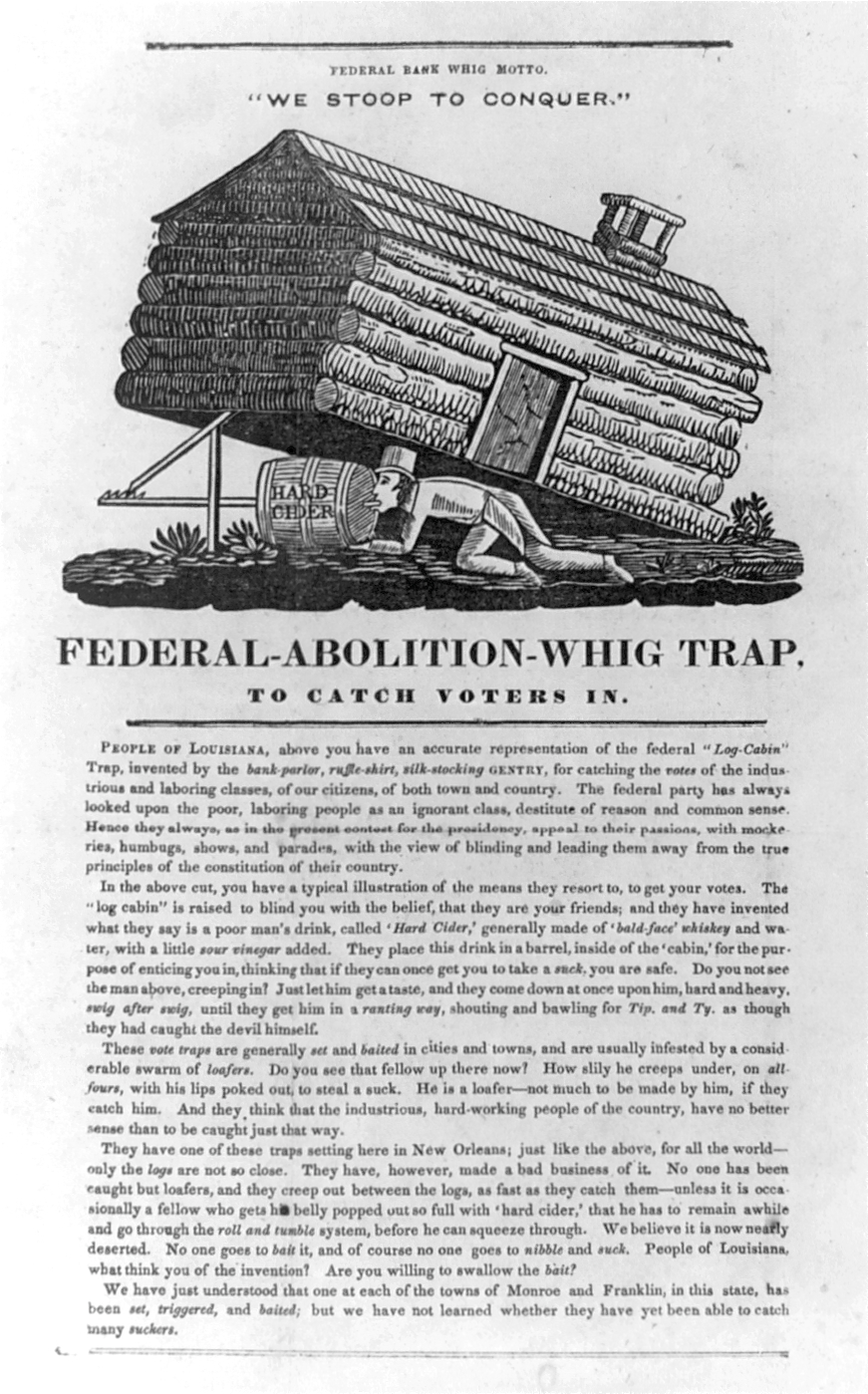 "FEDERAL-ABOLITION-WHIG TRAP, To Catch Voters In." 1840 US Anti-Whig political flyer, printed in New Orleans. An illustrated anti-Whig broadside, designed to combat the "Log Cabin campaign" tactics of presidential candidate William Henry Harrison. The text warns the people of New Orleans of Whig election propaganda: "People of Louisiana, above you have an accurate representation of the federal "Log-Cabin" Trap, invented by the "bank-parlor, Ruffle-shirt, silk-stocking" Gentry, for catching the "votes" of the industrious and laboring classes, of our citizens, of both town and country. . . . The "log cabin" is raised to blind you with the belief, that they are your friends . . ." The author then goes on to describe Whig campaign techniques as relying on deception, alcohol, and visual enticements, and as an "appeal to [the people's] passions, with mockeries, humbugs, shows, and parades. . . ." In the illustration a man sucks at a barrel of "Hard Cider" linked by a trip-rod to a precariously tilted log cabin. Above is the "Federal Bank Whig Motto. We Stoop to Conquer."